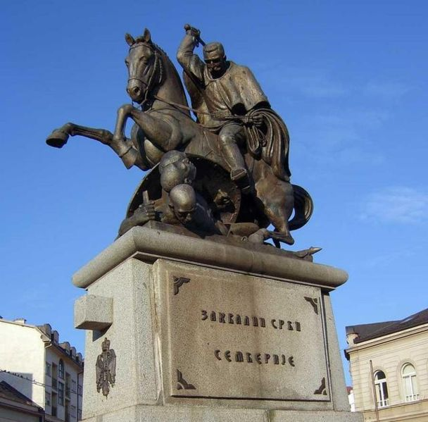 Trg Kralju Petru Karadjordjevicu I. Bijeljina